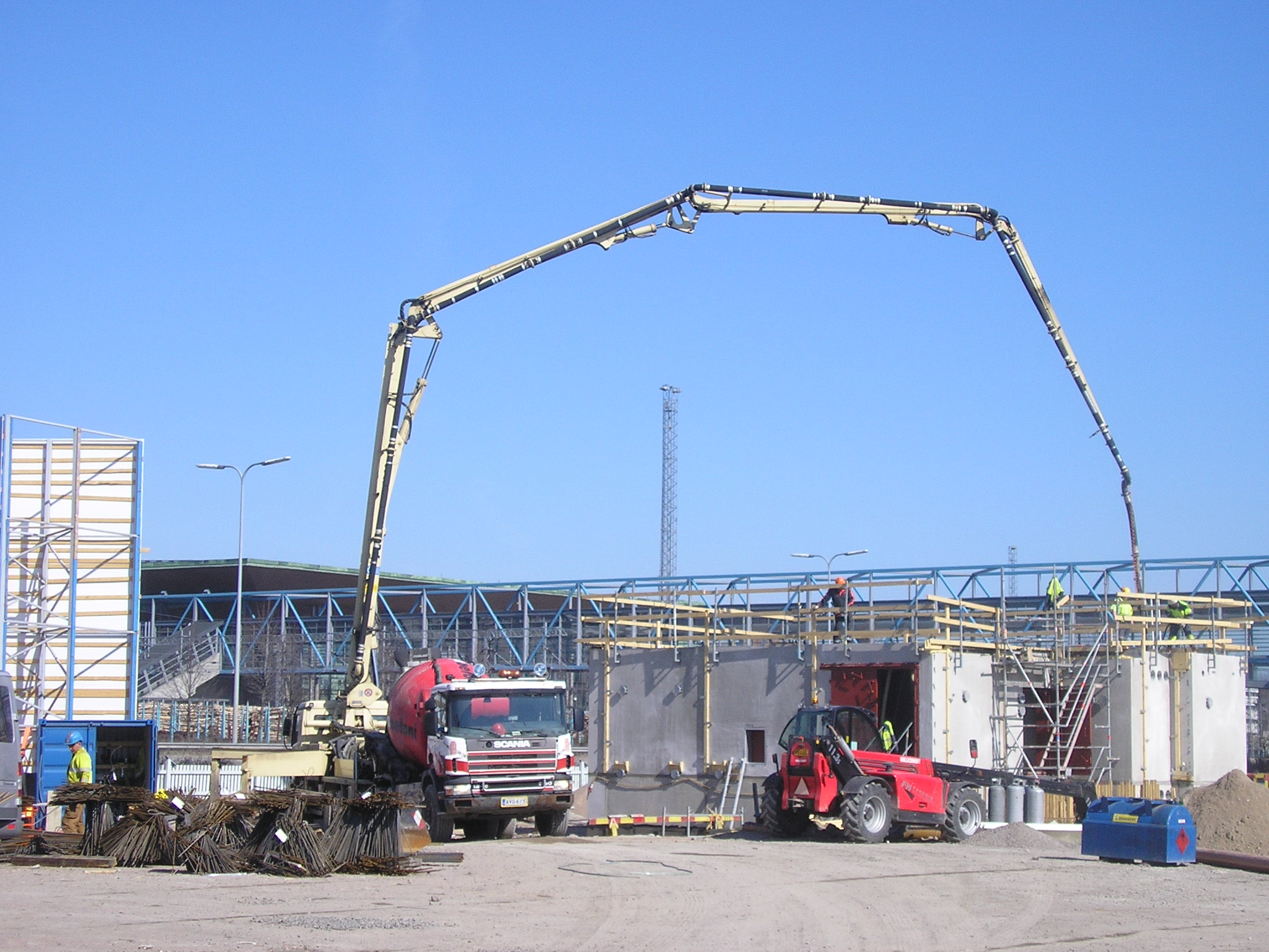 Concrete pumping in Jyväskylä, Finland